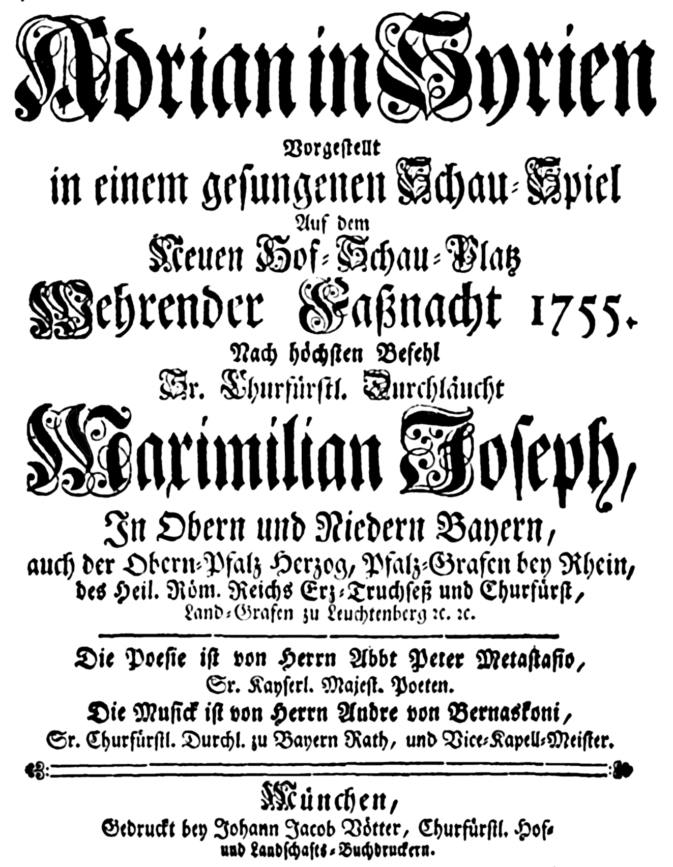 Andrea Bernasconi - Adriano in Siria - german titlepage of the libretto - Munich 1755